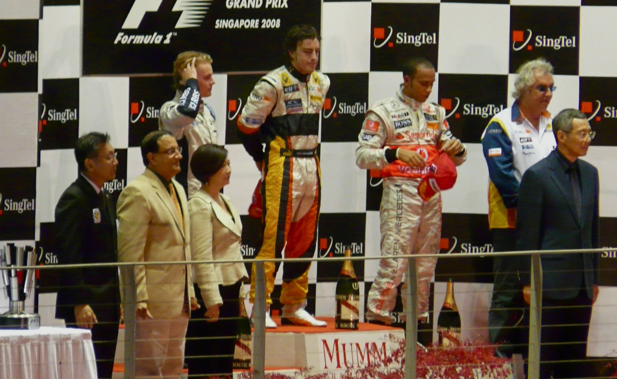 2008 Singapore Grand Prix podium Alonso Rosberg Hamilton